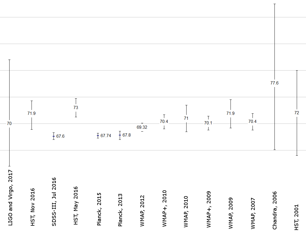 Graph of estimates of the Hubble constant, data from